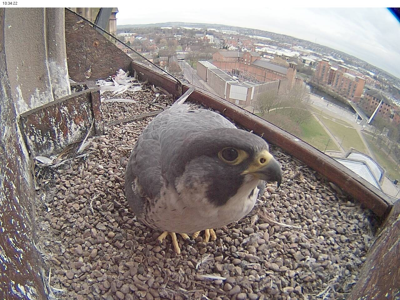 A pair of peregrine falcons have bred on an artificial nest platform half way up the tower of Derby Cathedral, England since 2006. In the background is Derby's Cathedral Green from where good views of the mediaeval tower can be had.